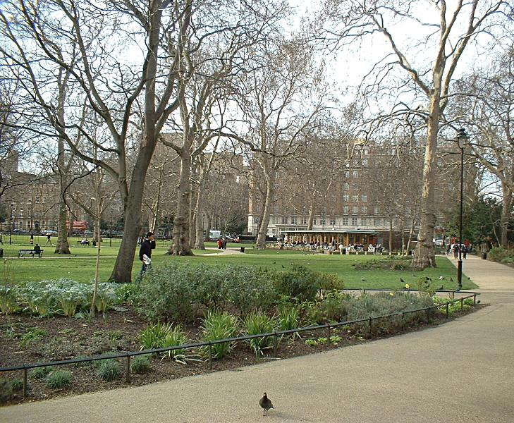 Russell Square, Bloomsbury, London. Taken by C Ford, March 04.